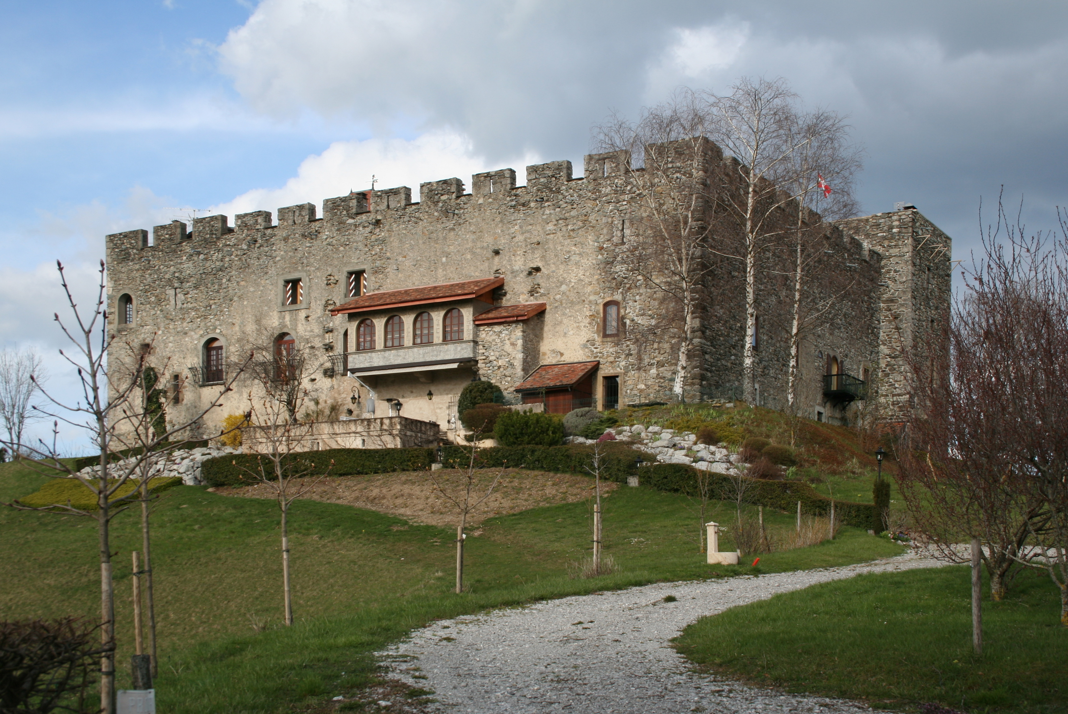 The castle Chateau de Larringes, department Haute-Savoie , France